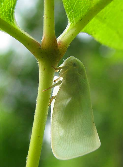 A planthopper of the Flatid family. It can be distinguished from planthoppers of other families by: the round-headed wedge shape the way many straight, outward radiating, parallel veins run around the wings' margins. Technically "numerous costal cross veins."